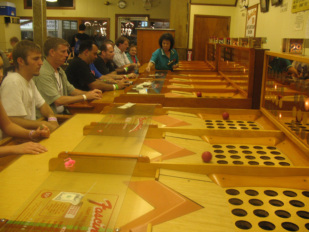 Fascination at Indiana Beach. Taken August 2007